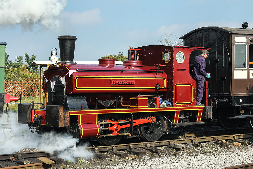 Built 1891 - Buckinghamshire Railway Centre, Quainton, 04/10/2015